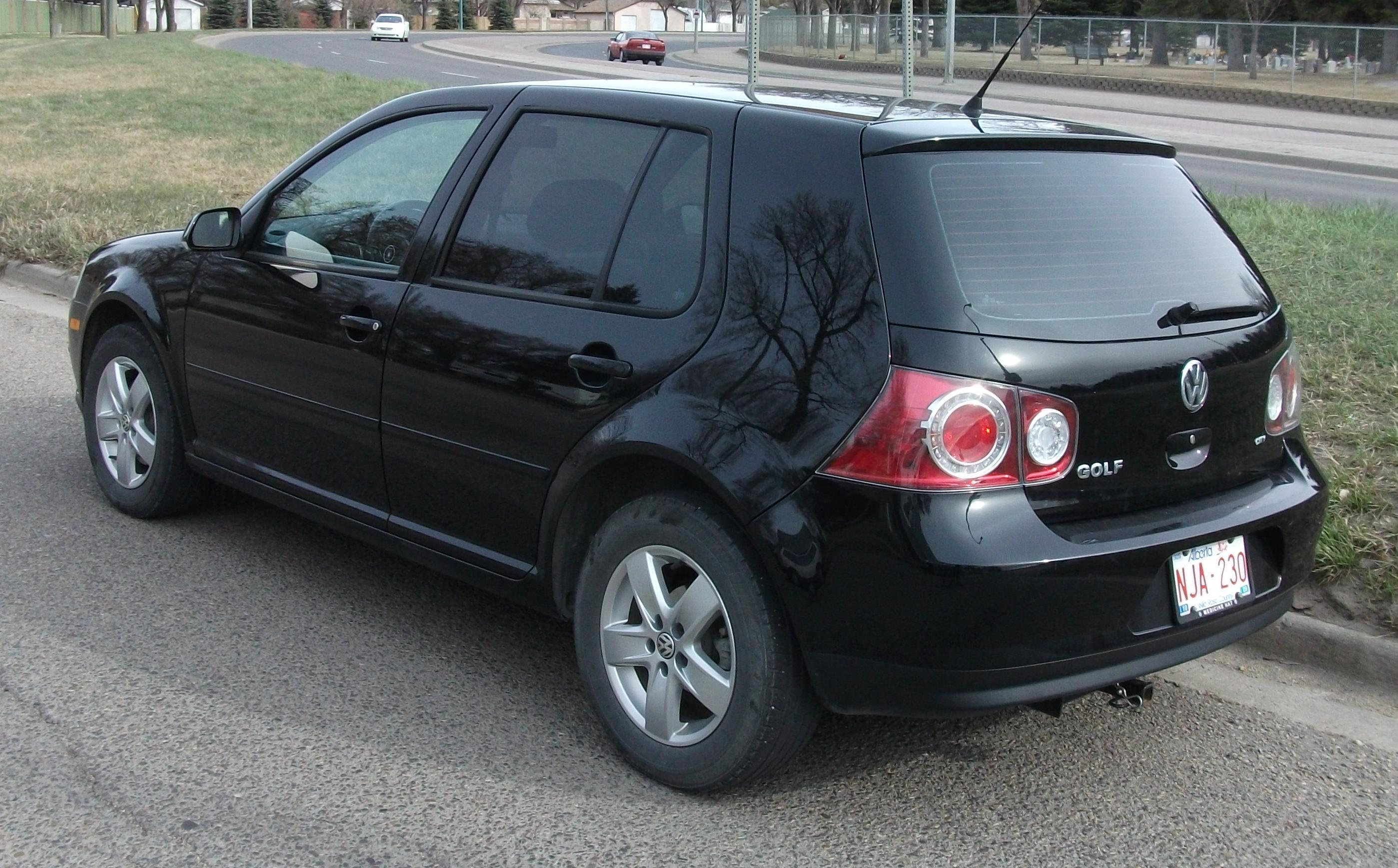 The Volkswagen Golf City is a Canadian variant which uses the previous generation chassis with updated styling. Only available with the 2.0L four cylinder engine.